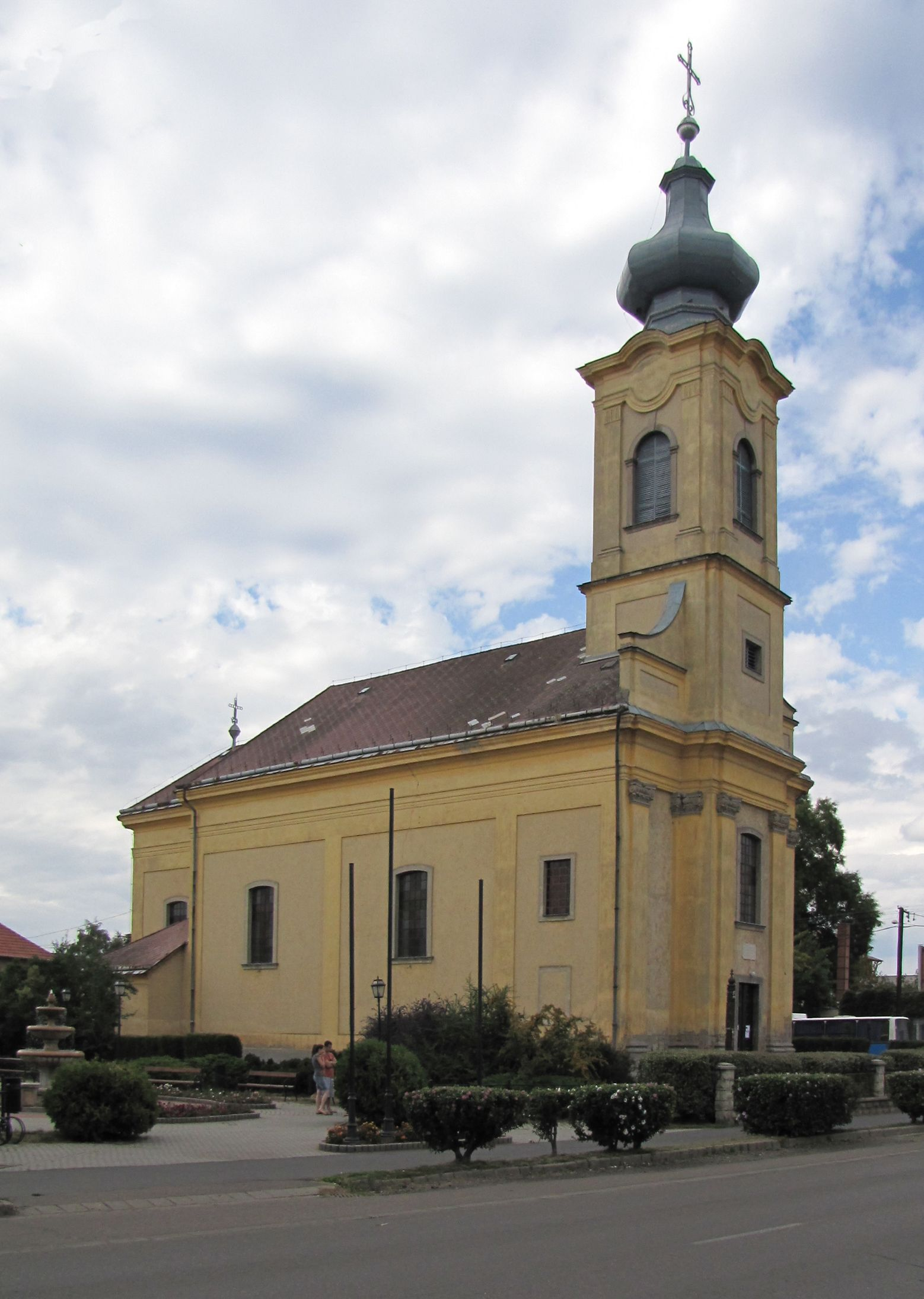 Roman catholic church, Poroszló, Hungary This is a photo of a monument in Hungary. Identifier: 5826